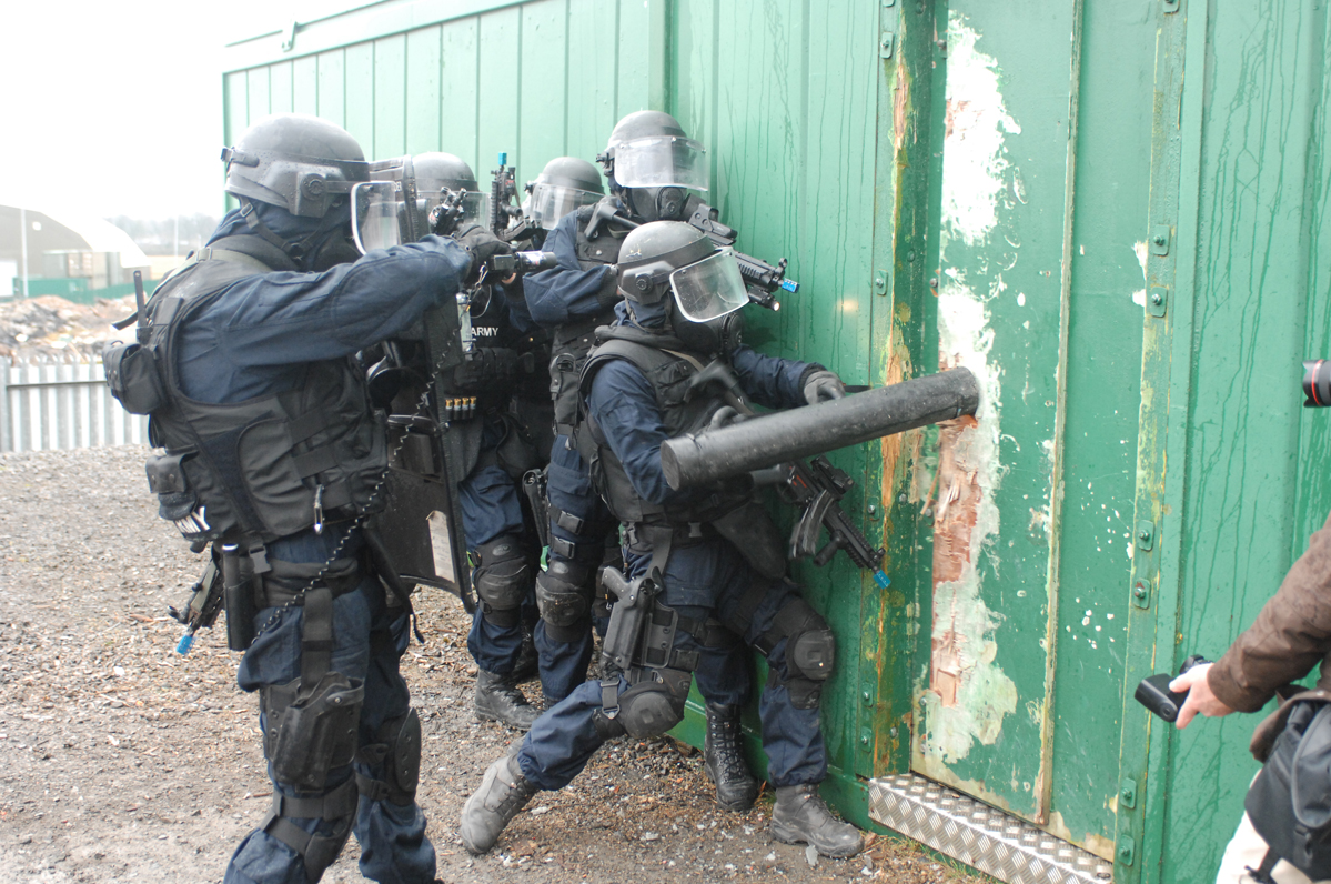 Irish Army Ranger Wing (ARW) counter terrorism demonstration for ARW 30th Anniversary.